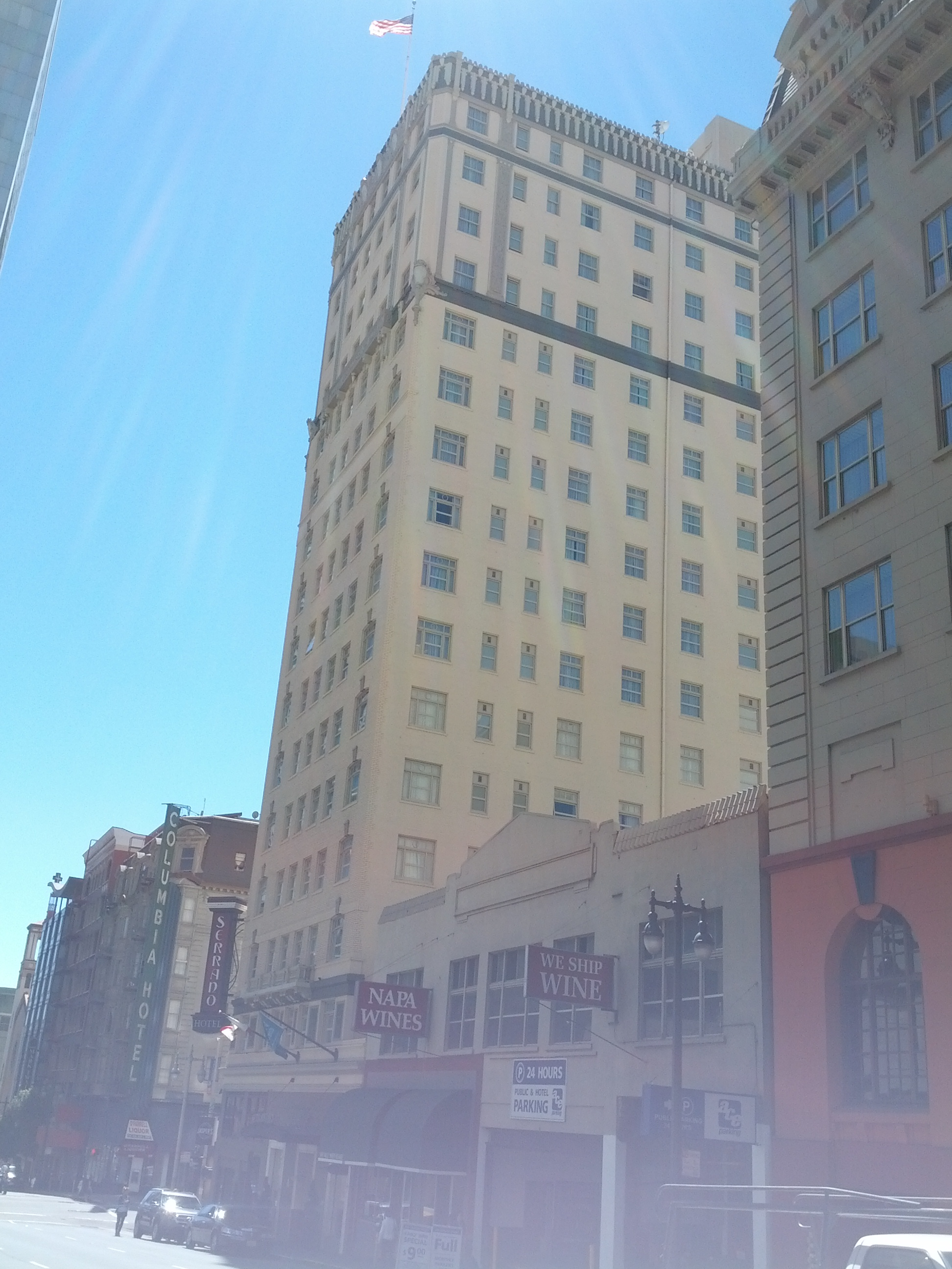 Hotel Serrano, formerly the Hotel Californian, in Sam Francisco